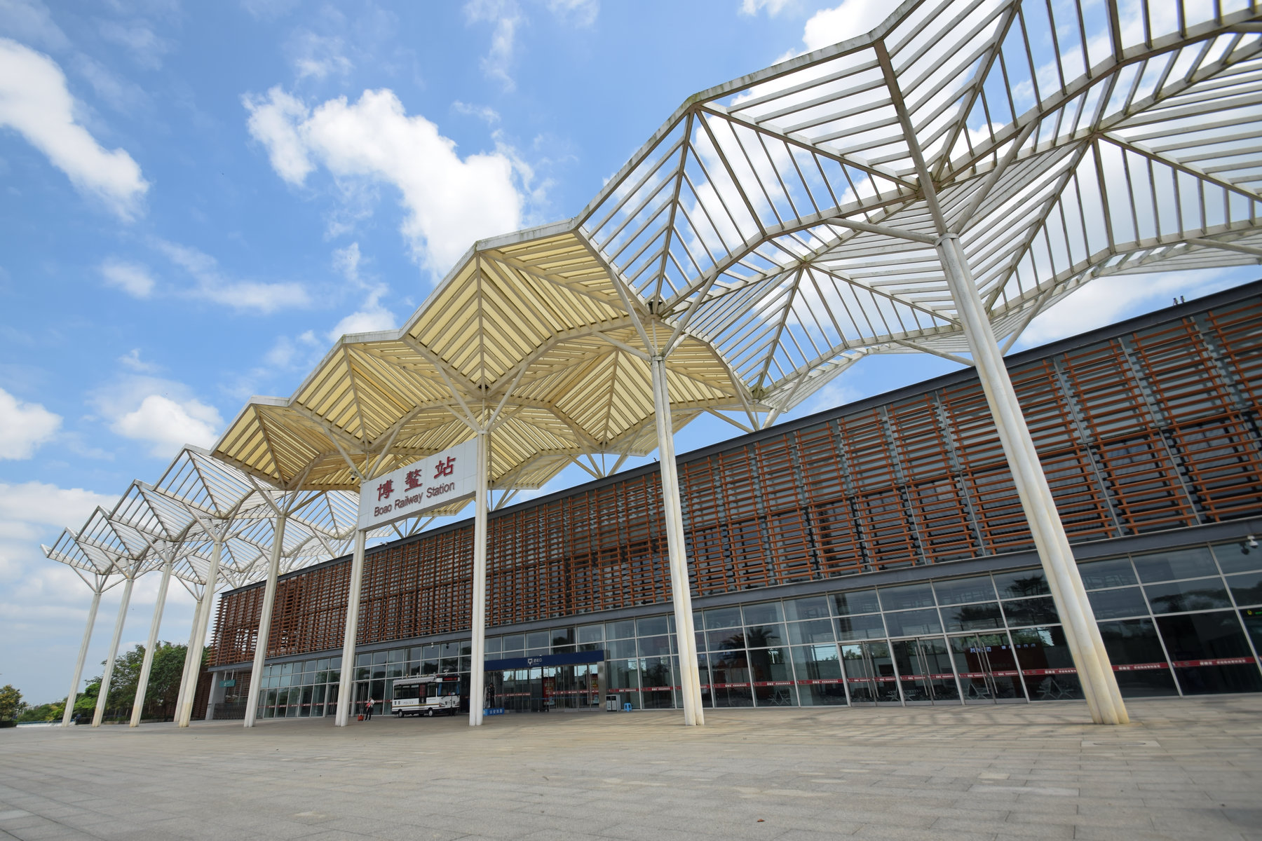 Boao Railway Station (architect: China Architecture Design & Research Group)